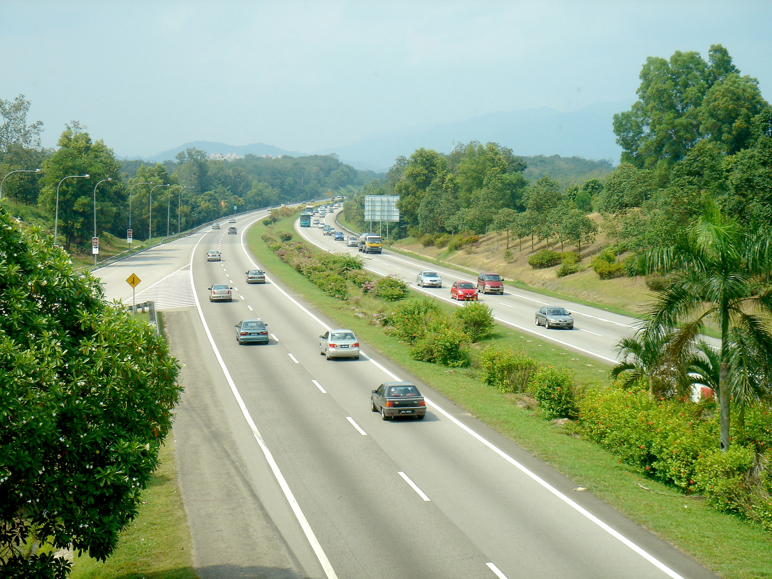 North-South Expressway towards Kuala Lumpur, Southern Route, Ayer Keroh, Melaka, Malaysia.